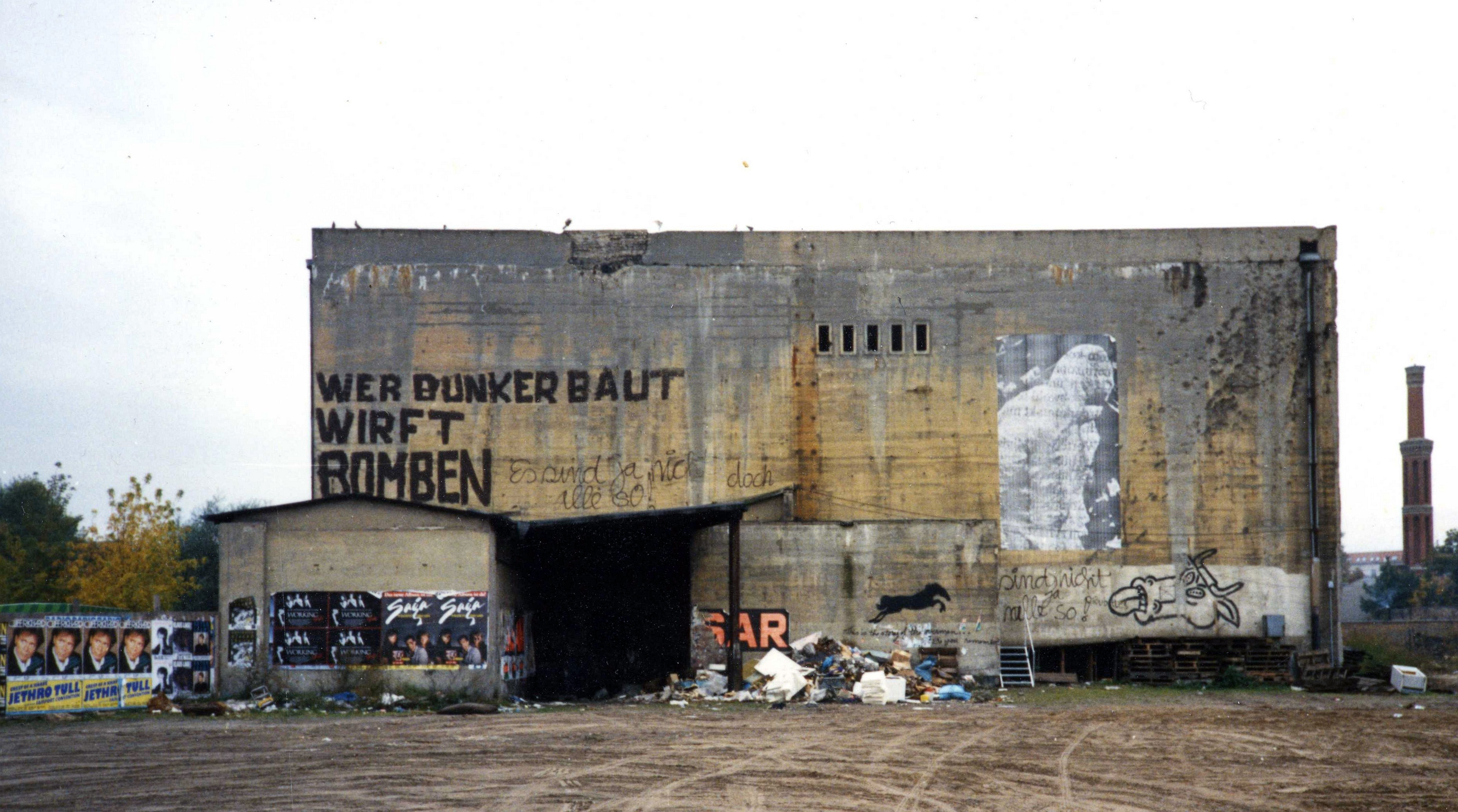 2nd WW bunker near Anhalter Bahnhof (Berlin) with a graffiti inscription „Wer Bunker baut, wirft Bomben“ (those who build bunkers, throw bombs).